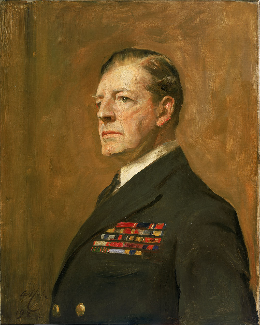 A life sketch for the painting of a group of officers, 'Naval Officers of World War I', 1921, at the National Portrait Gallery (NPG1913), by Sir Arthur Stockdale Cope. This sketch is a half-length portrait of David, first Earl Beatty, facing left, and wearing undress uniform. He received the surrender of the German fleet in 1918, and was both promoted First Sea Lord and Admiral of the Fleet (in 1919) by the time of this portrait. The other officers in the finished portrait include Sir Robert Keith Arbuthnot, Bt; Sir Horace Hood; Sir John Michael De Roebeck, Bt; Roger Keyes, first Baron Keyes; Sir Cecil Burney, Bt; Sir Trevylyan Napier and Louis Alexander.